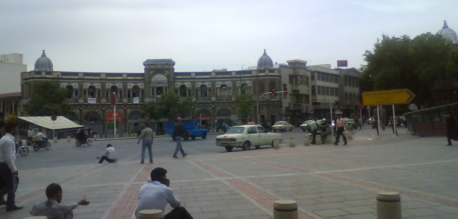 Hassanabad square in Tehran